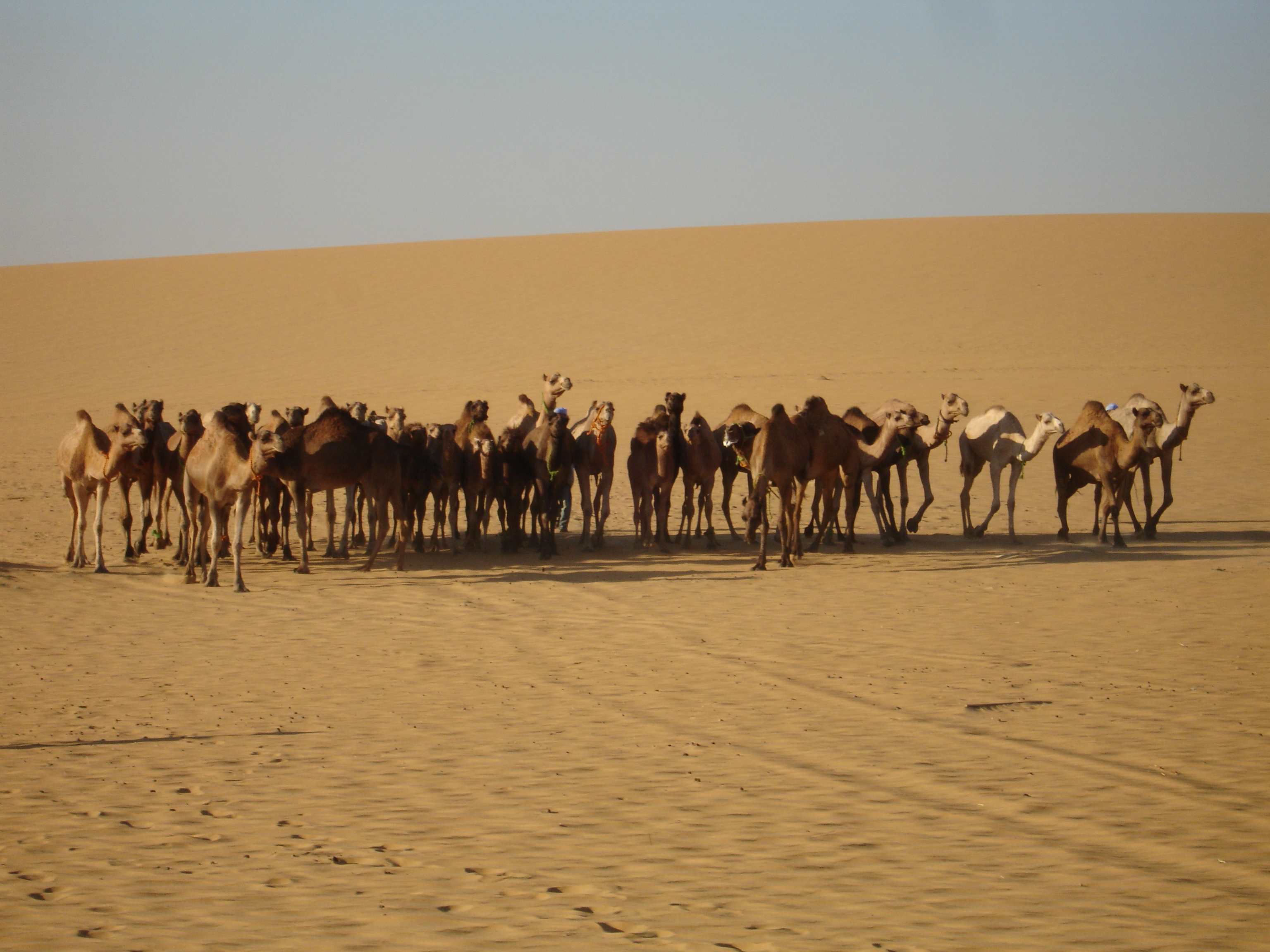 A herd of camels owned by Bedouins in Dakhla Oasis, Egypt